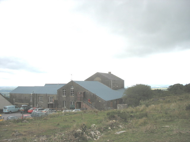 The Beacon Climbing Centre, Ceunant. A popular sporting venue on the edge of the moor, famous for its devilish training walls. Occupies the buildings of the former Marconi Radio Station. Closed on the eve of World War II, the station was a major landmark in the area with huge 400 foot tall aerials erected across the Cefn Du moors. Local radio amateurs keep up the tradition with an annual world wide link-up from the centre.